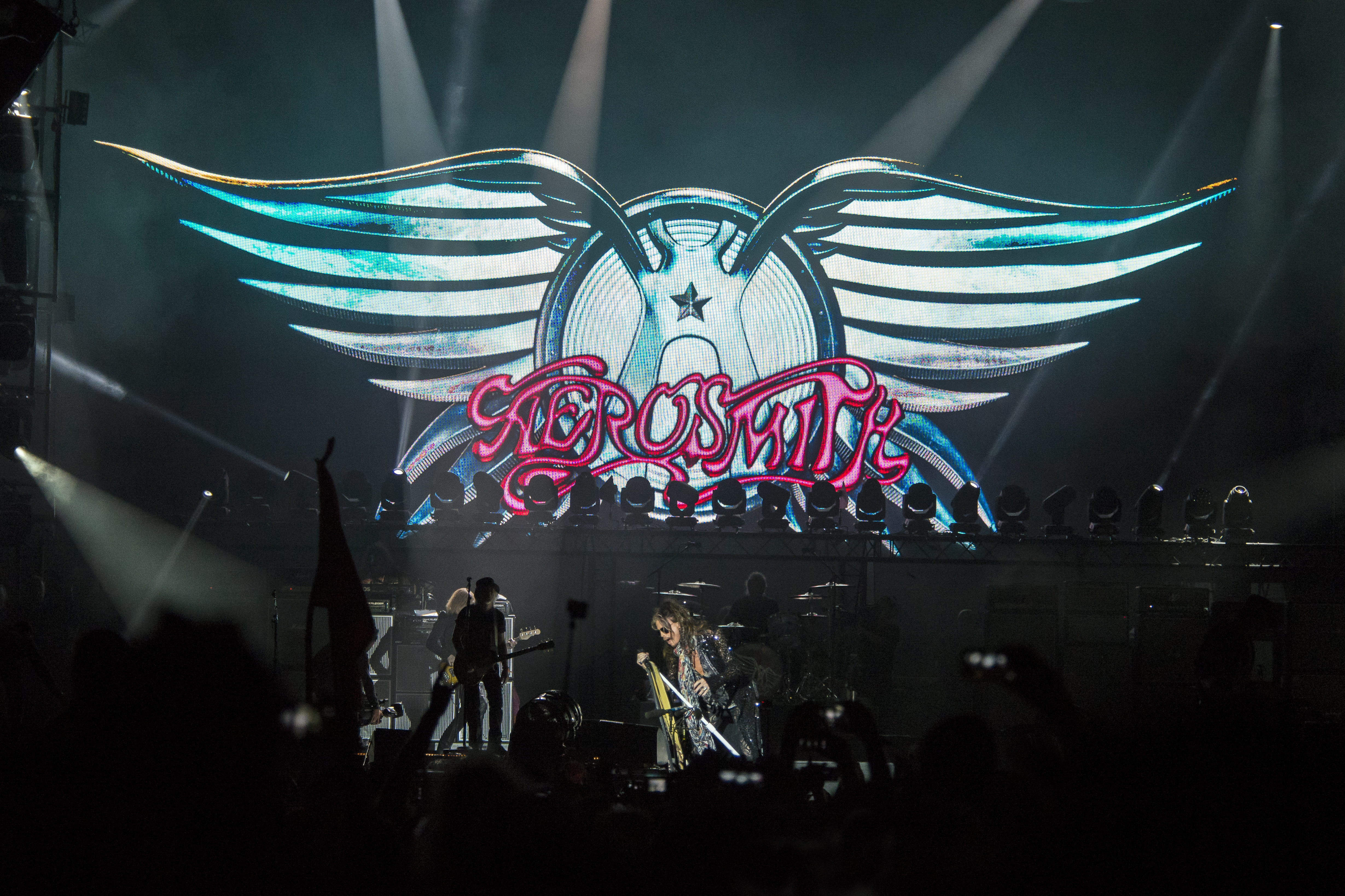 Aerosmith show at 2017 Hellfest, France.